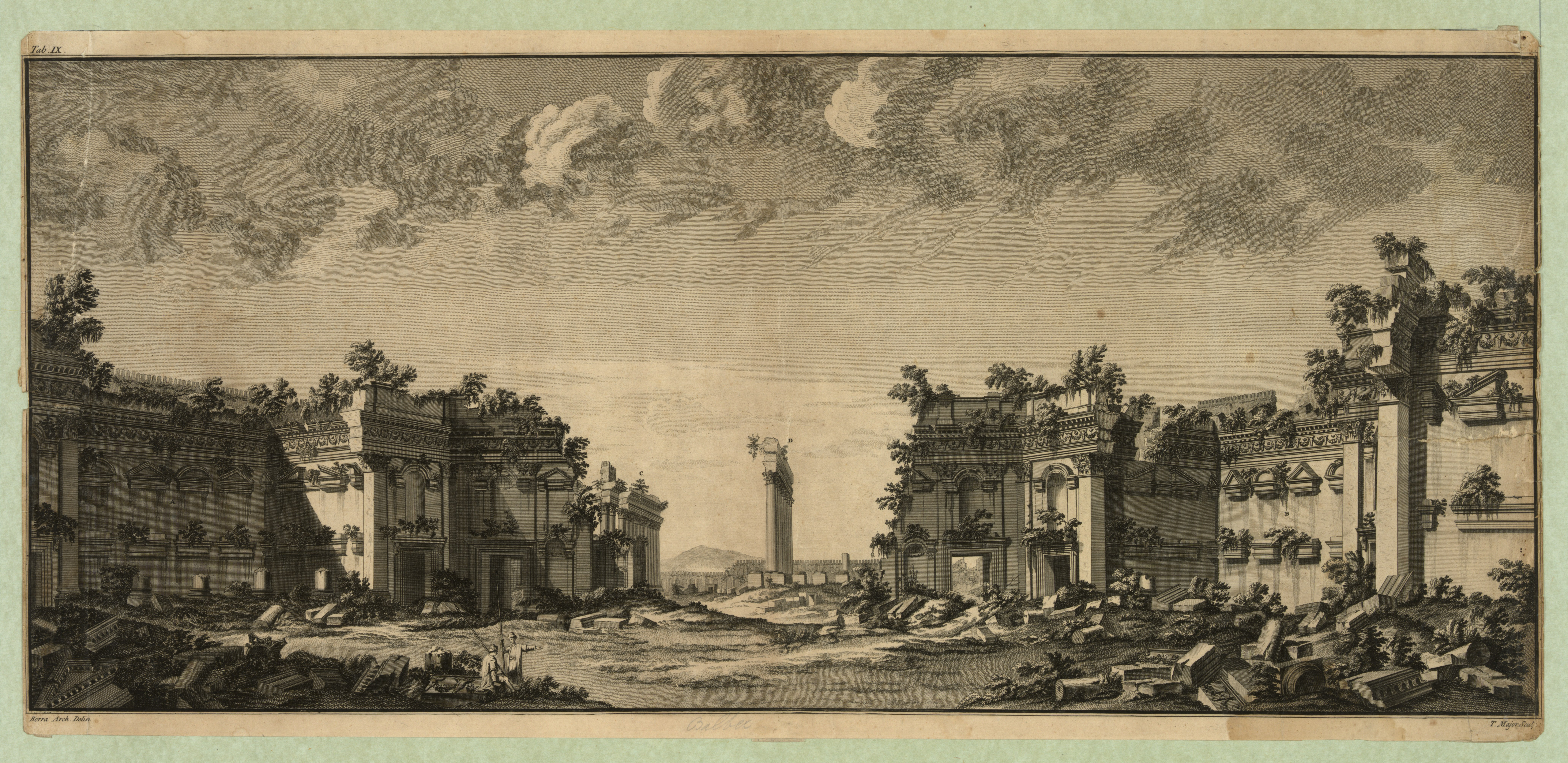 Title: The ruins of Balbec] / Borra Arch delin. ; T. Major sculp Abstract/medium: 1 print : engraving ; 32 x 68.9 cm (sheet)